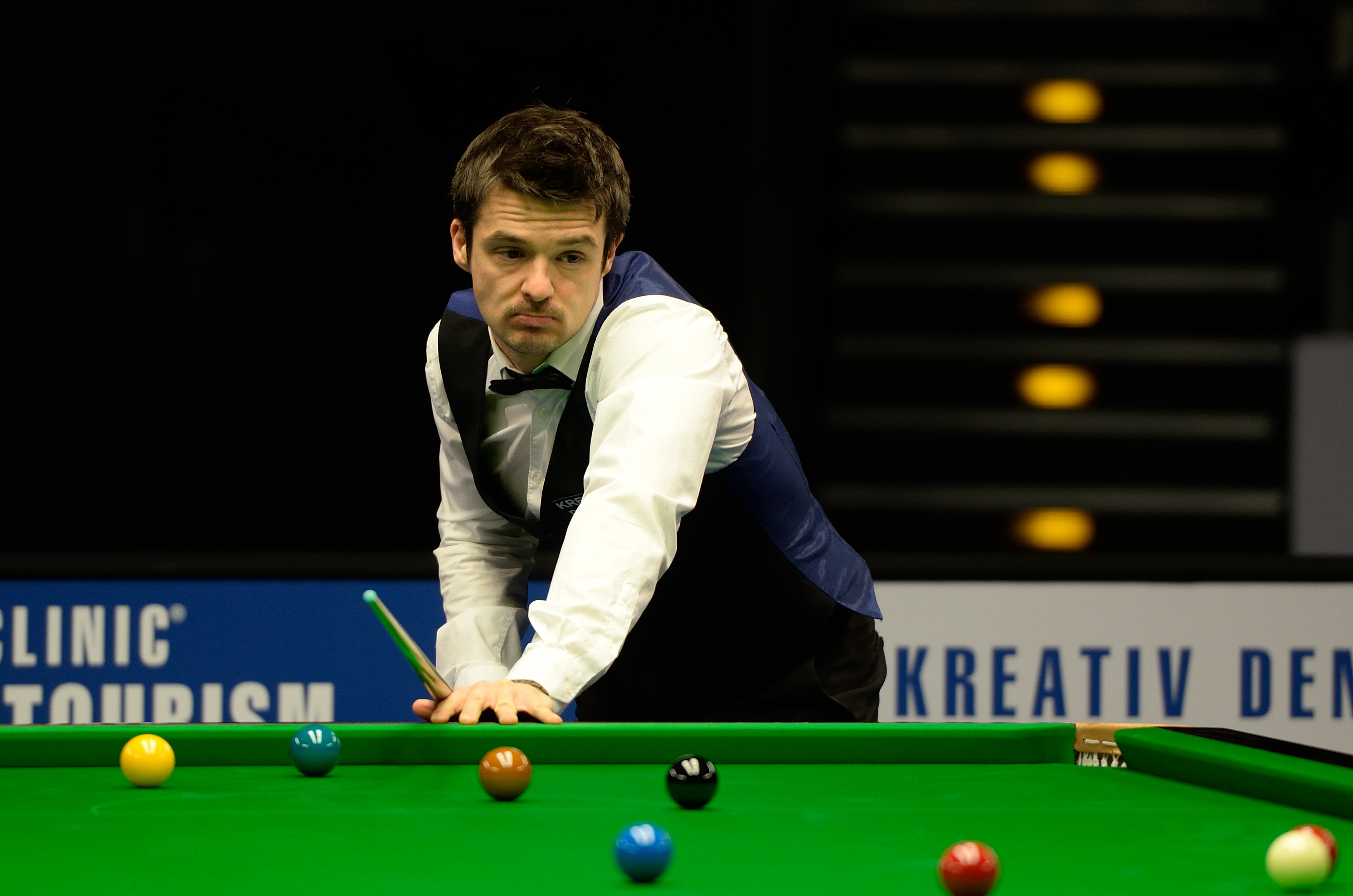 Picture taken in Berlin during the Snooker German Masters in 2015. Michael Holt.